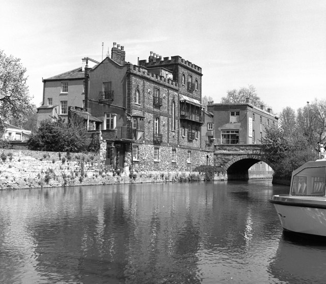 Folly Bridge and battlemented house, Oxford The house was built in 1849 for the mathematician Joshua Cardwell.